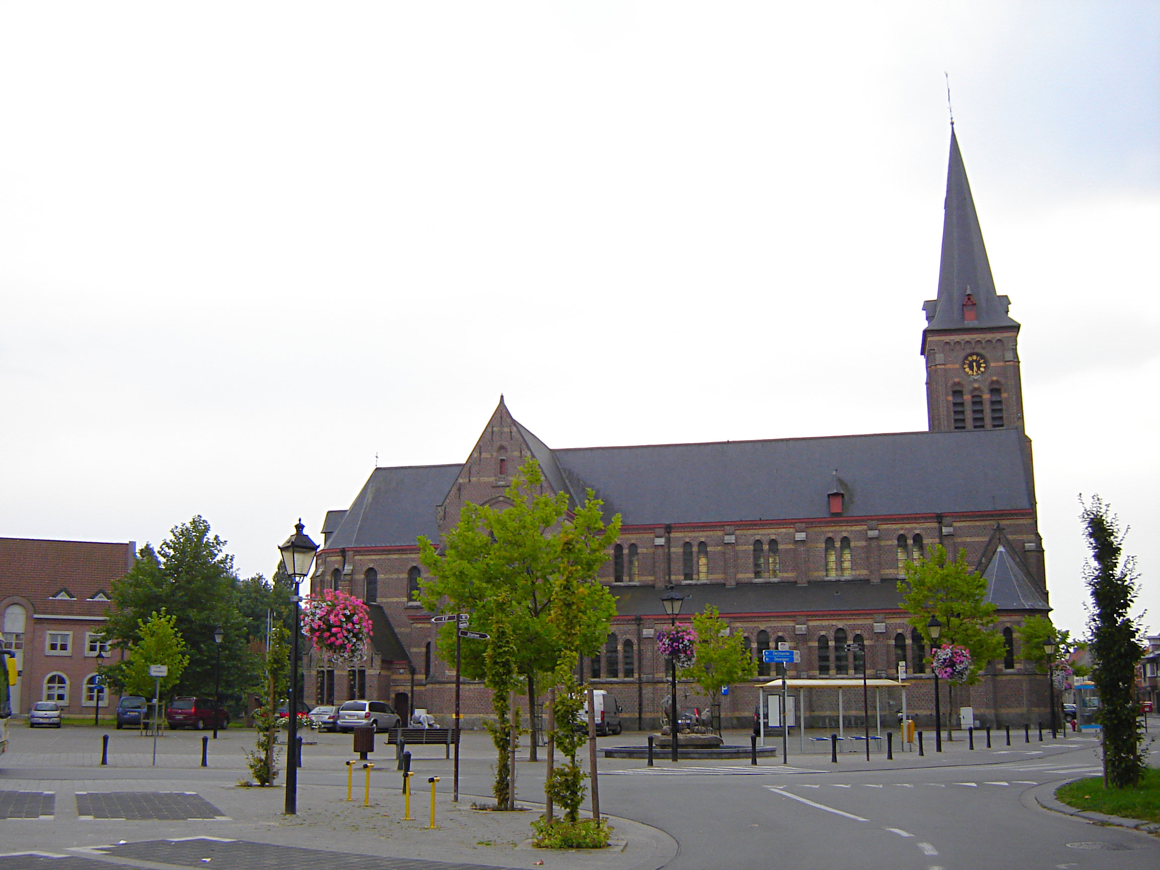 Church of Saint Nicholas of Tolentino in De Pinte. De Pinte, East Flanders, Belgium